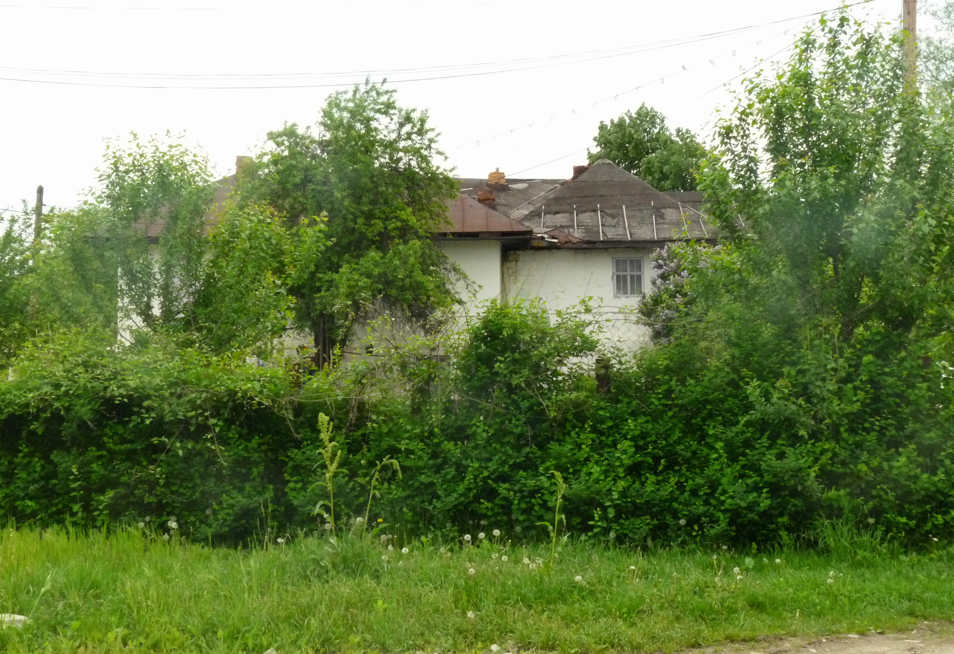 Rusescu house in Seciu, Boldești-Scăeni town, Prahova County, RomaniaRomână: Casa Rusescu din Seciu, orașul Boldești-Scăeni, județul Prahova, România